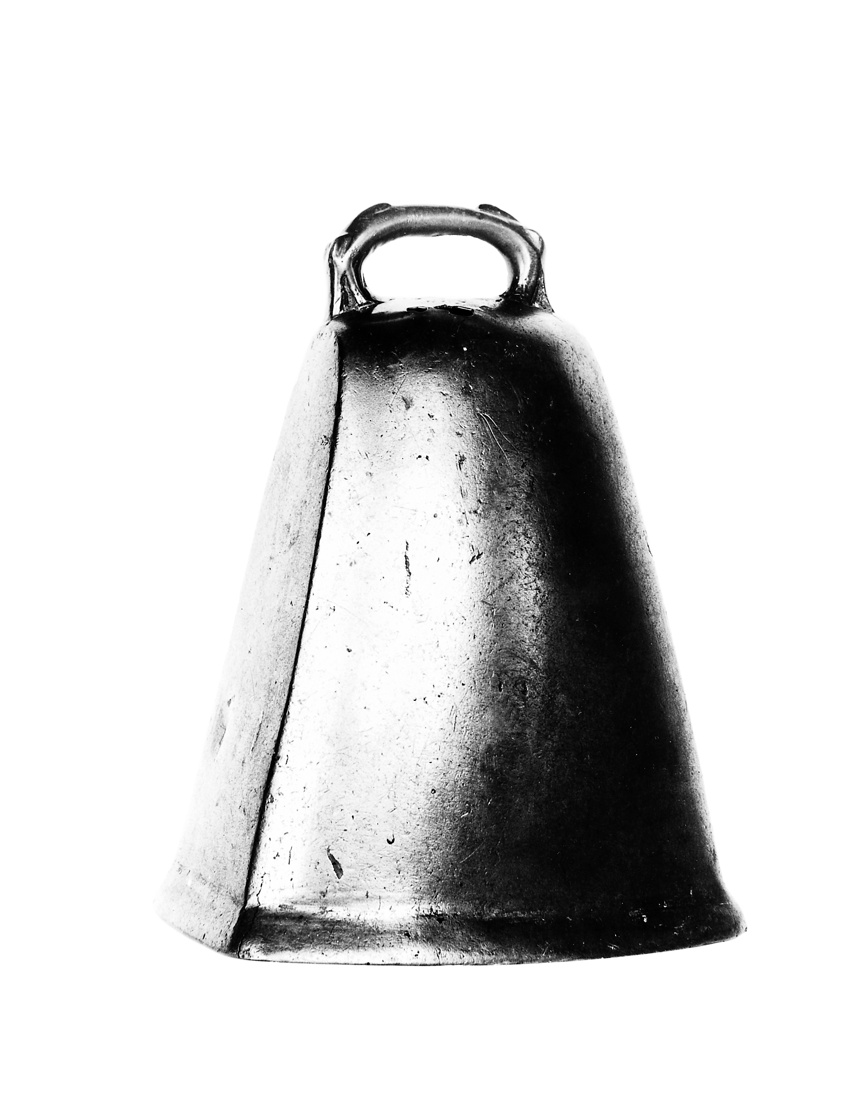 St. Fillan's bronze bell, placed on the head for the cure of insanity. From a photo of orginal in National museum of Antiquities of Scotland. Wellcome Images Keywords: Neurology; healing